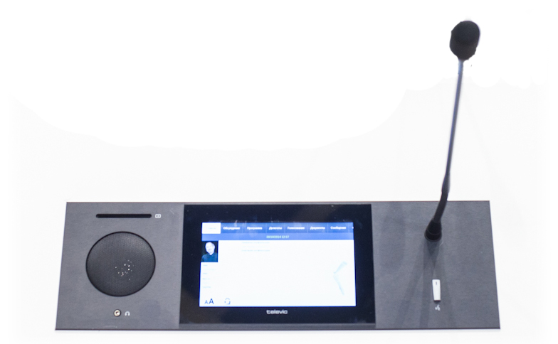 Televic Unicos